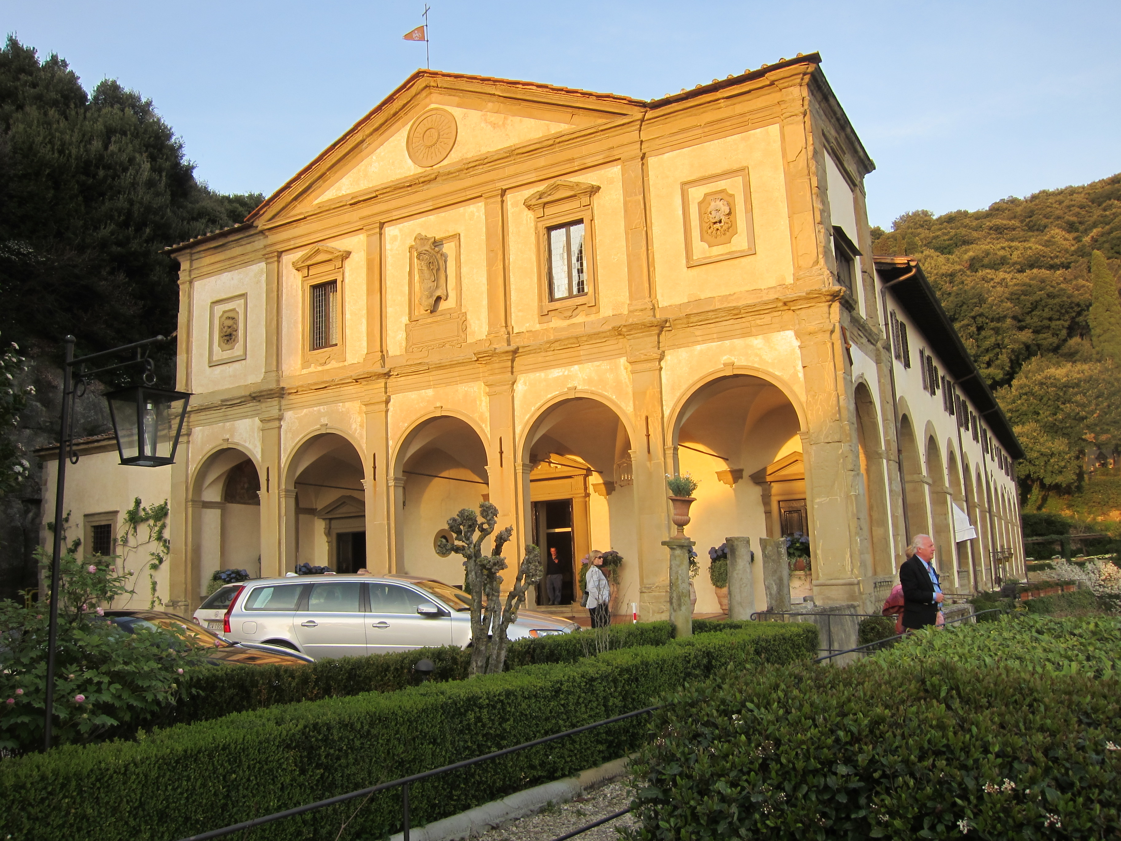 see above